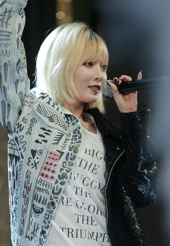 HyunA in December 2013, during the 2013 Korea Yakult Seven Pro BaseBall Golden Globe Award.